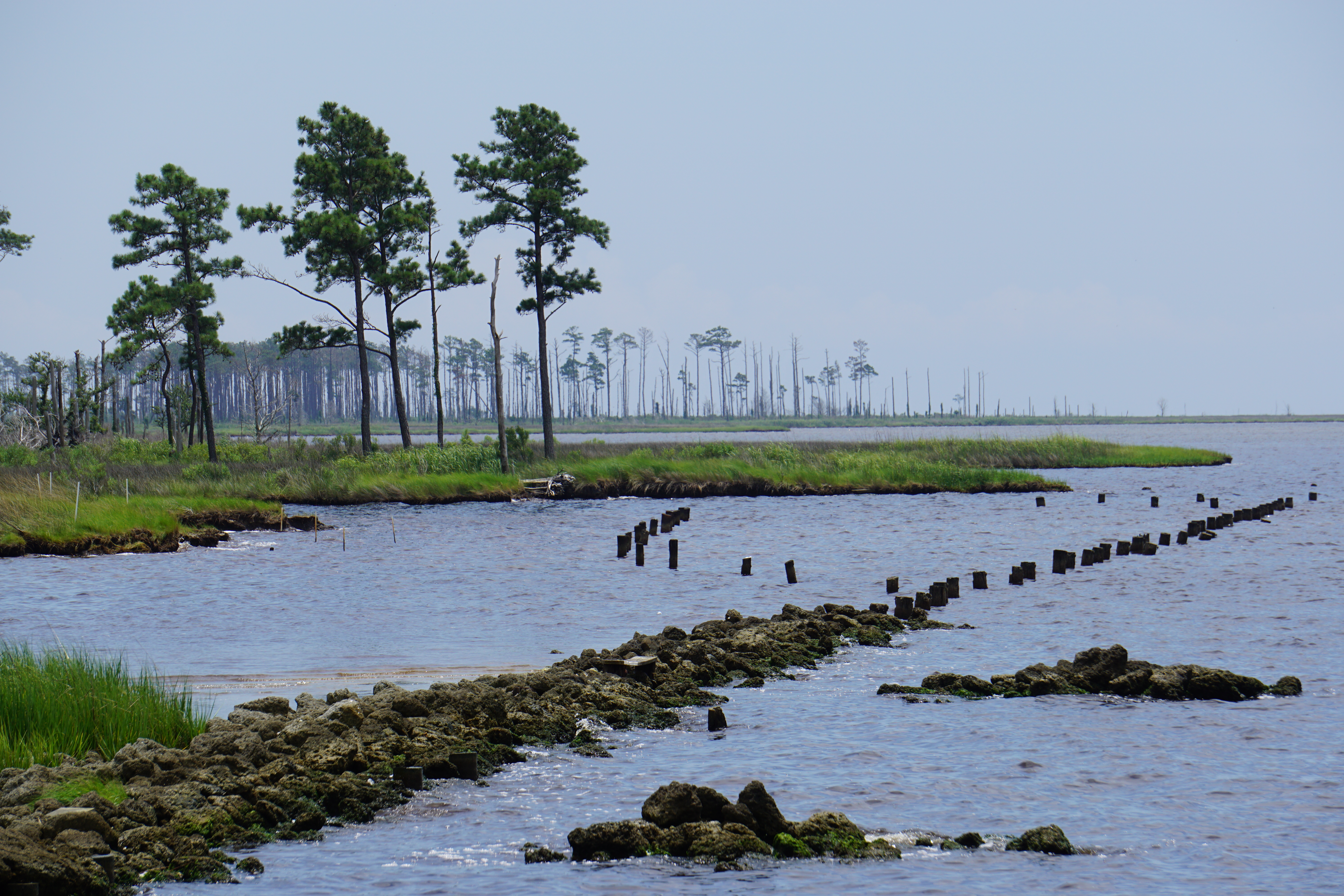 Swanquarter NWR